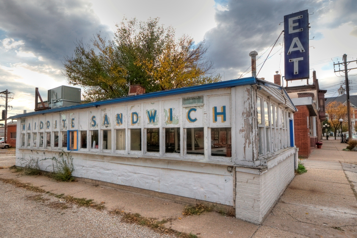 Closed Maid-Rite Sandwiches, Macomb, Illinois